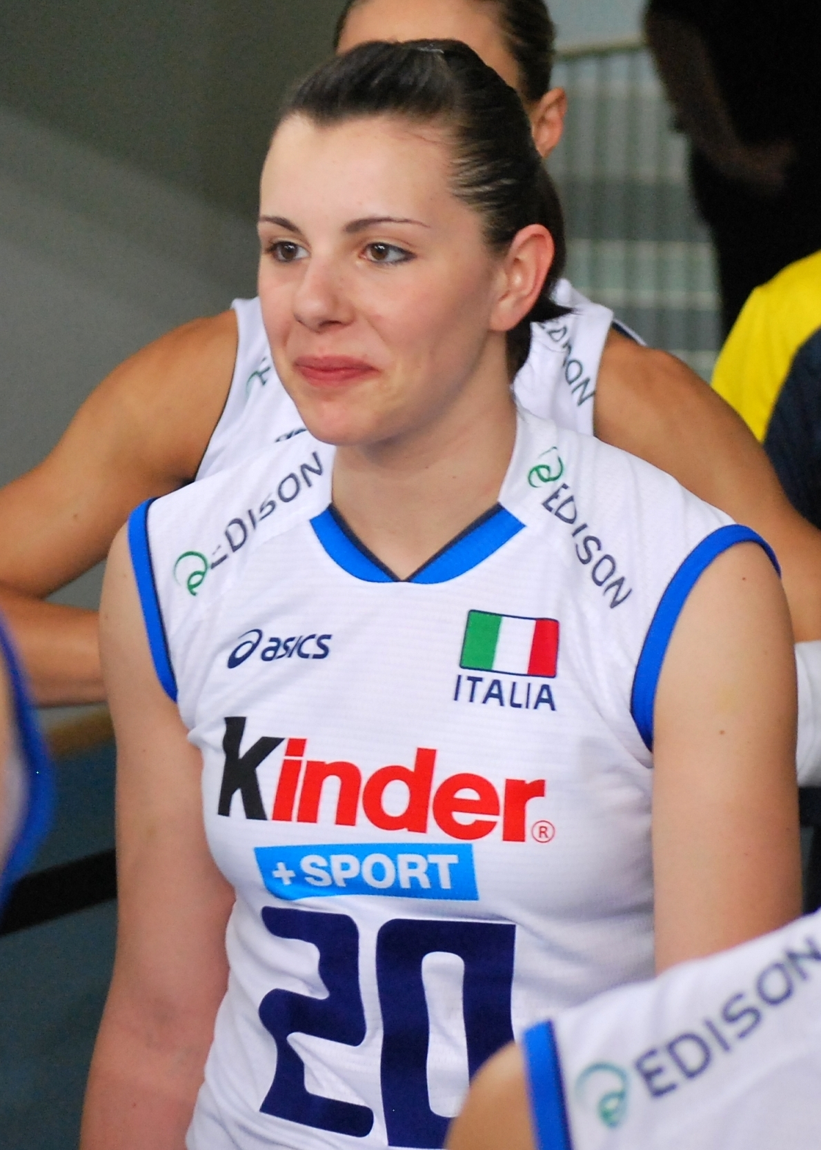 Alessia Gennari, volleyball player from Italy